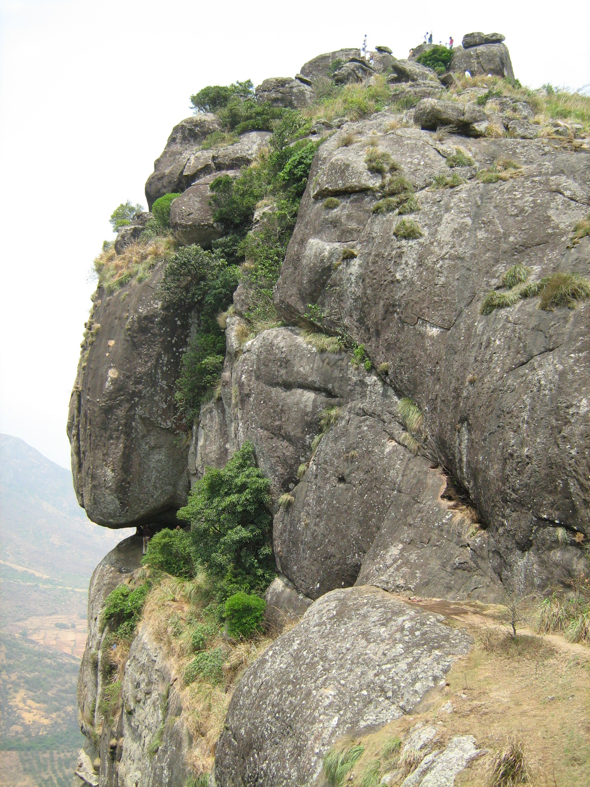 Ramakkalmedu, Karunapuram gramapanchayat, Idukki district